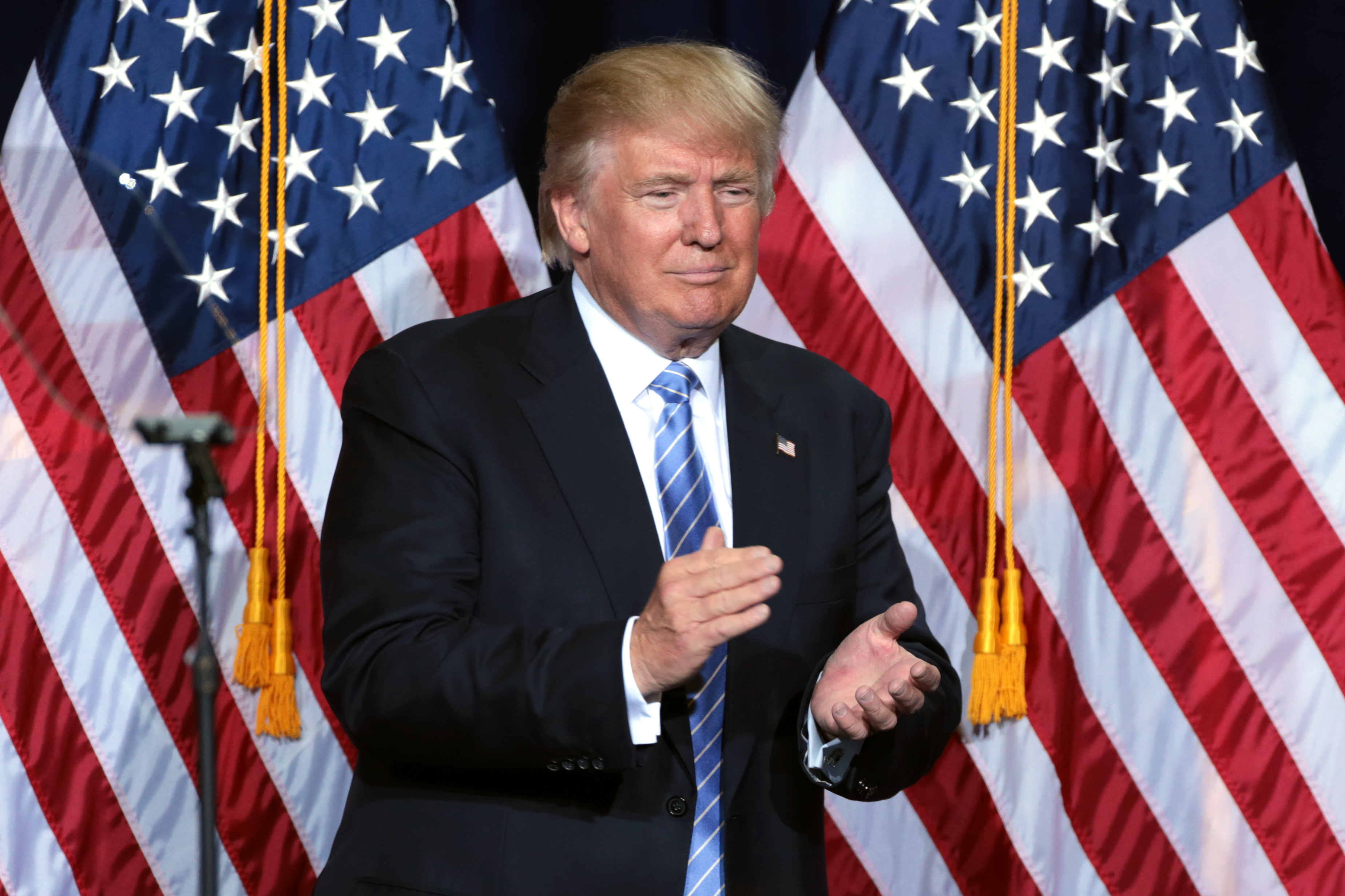 Donald Trump speaking to supporters at an immigration policy speech at the Phoenix Convention Center in Phoenix, Arizona.